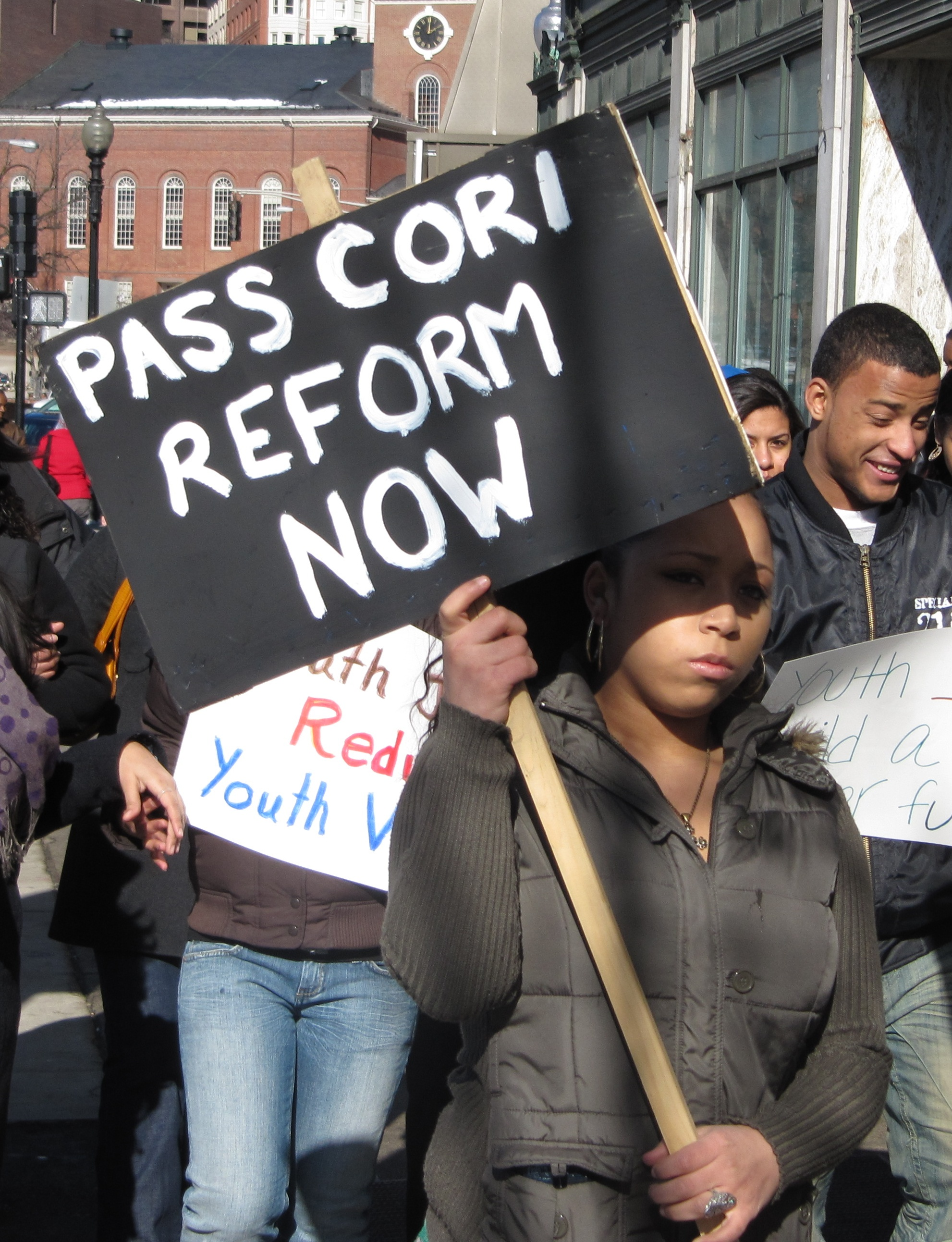 protester across the street from Boston Common, Park Street Church in background